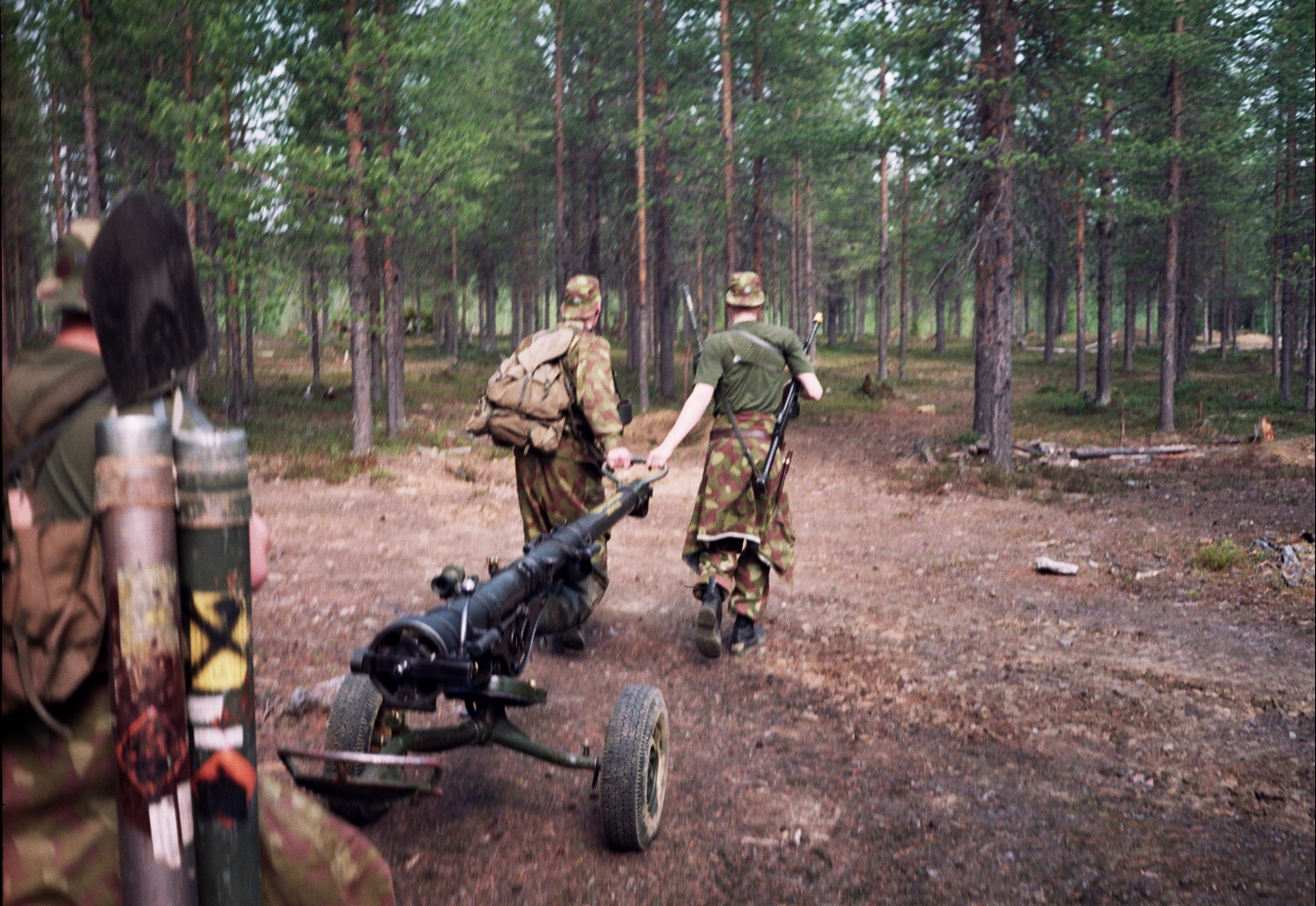 A heavy recoilless rifle squad (the leader on the right, most of the members not seen in the photo) marching in forest at Sodankylä in Finland. The weapon is the Finnish 95 mm recoilless rifle (95 S 58-61). It is 95 mm and was designed in 1958–1961, the design probably being heavily influenced by a similar concept from the United States. The day the photo was taken was pretty warm, so the conscripts were allowed to dress relative freely.